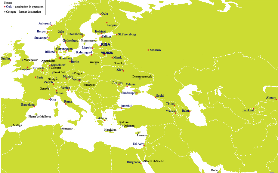 airBaltic route map